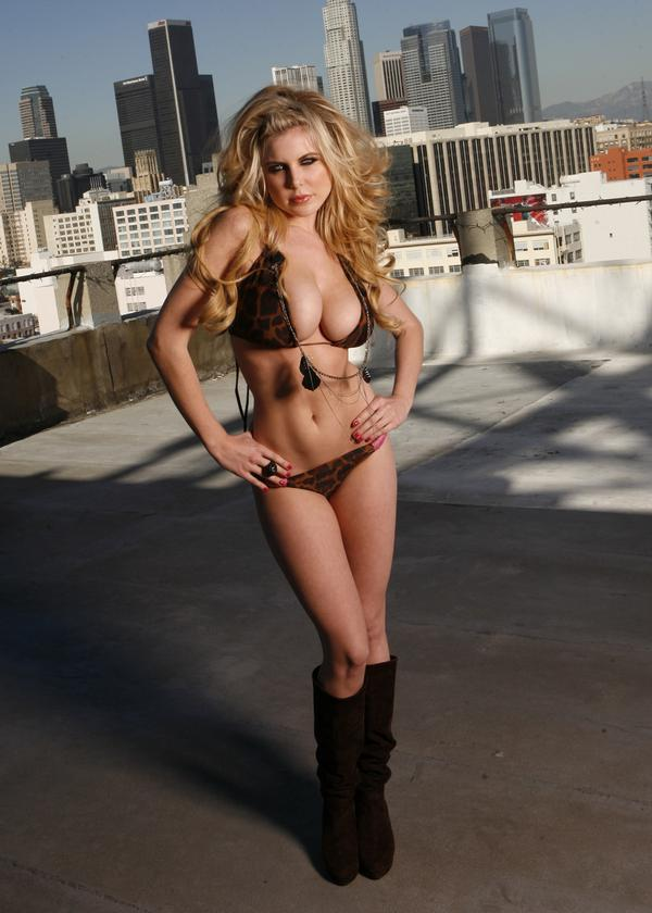 Alyssa Nicole Pallett, "Queen of the concrete jungle"